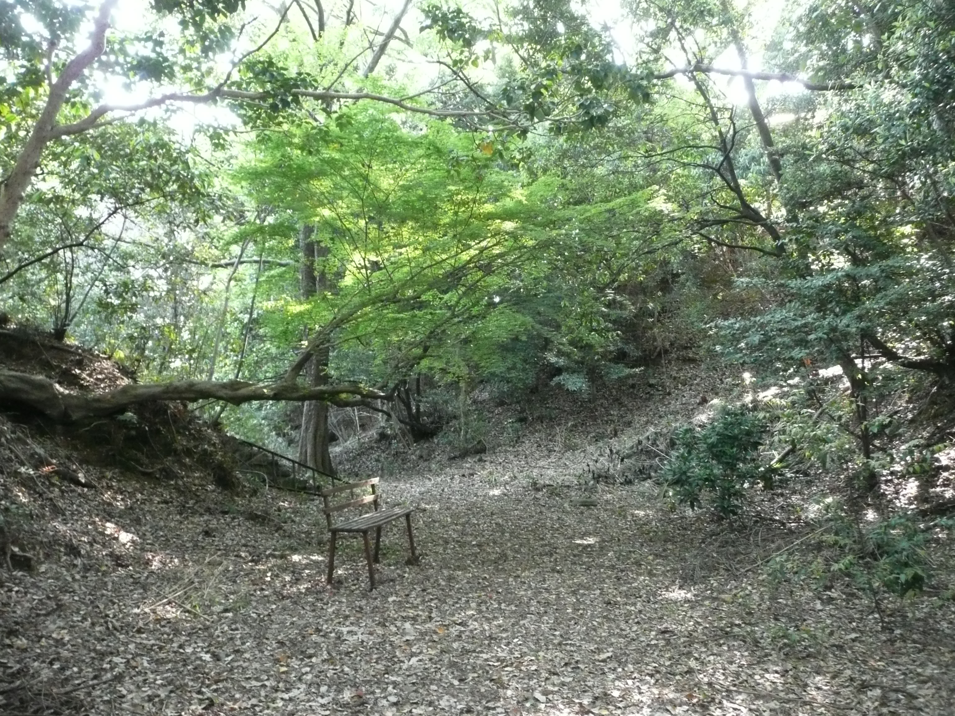 末森城の空堀